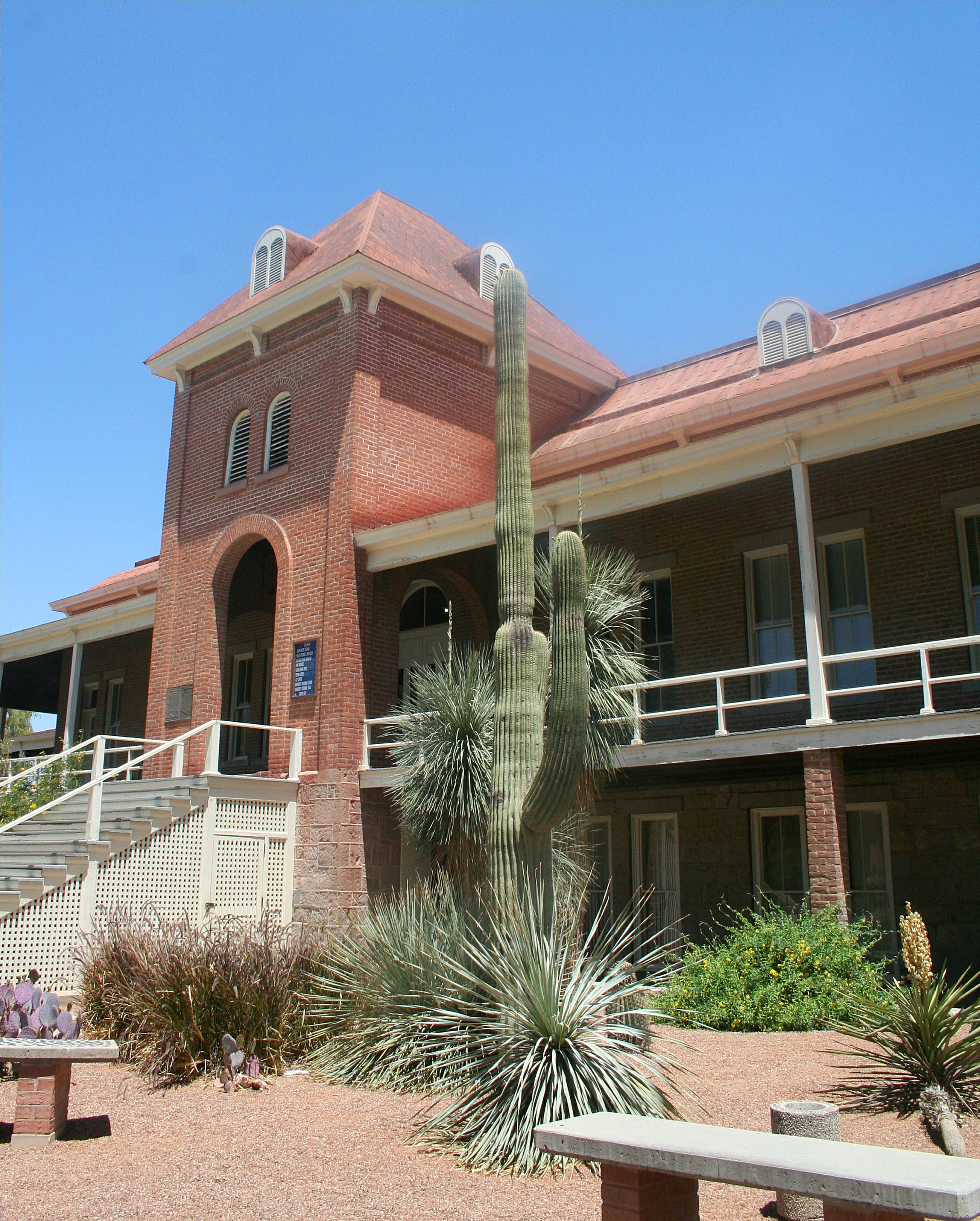 Old Main - University of Arizona